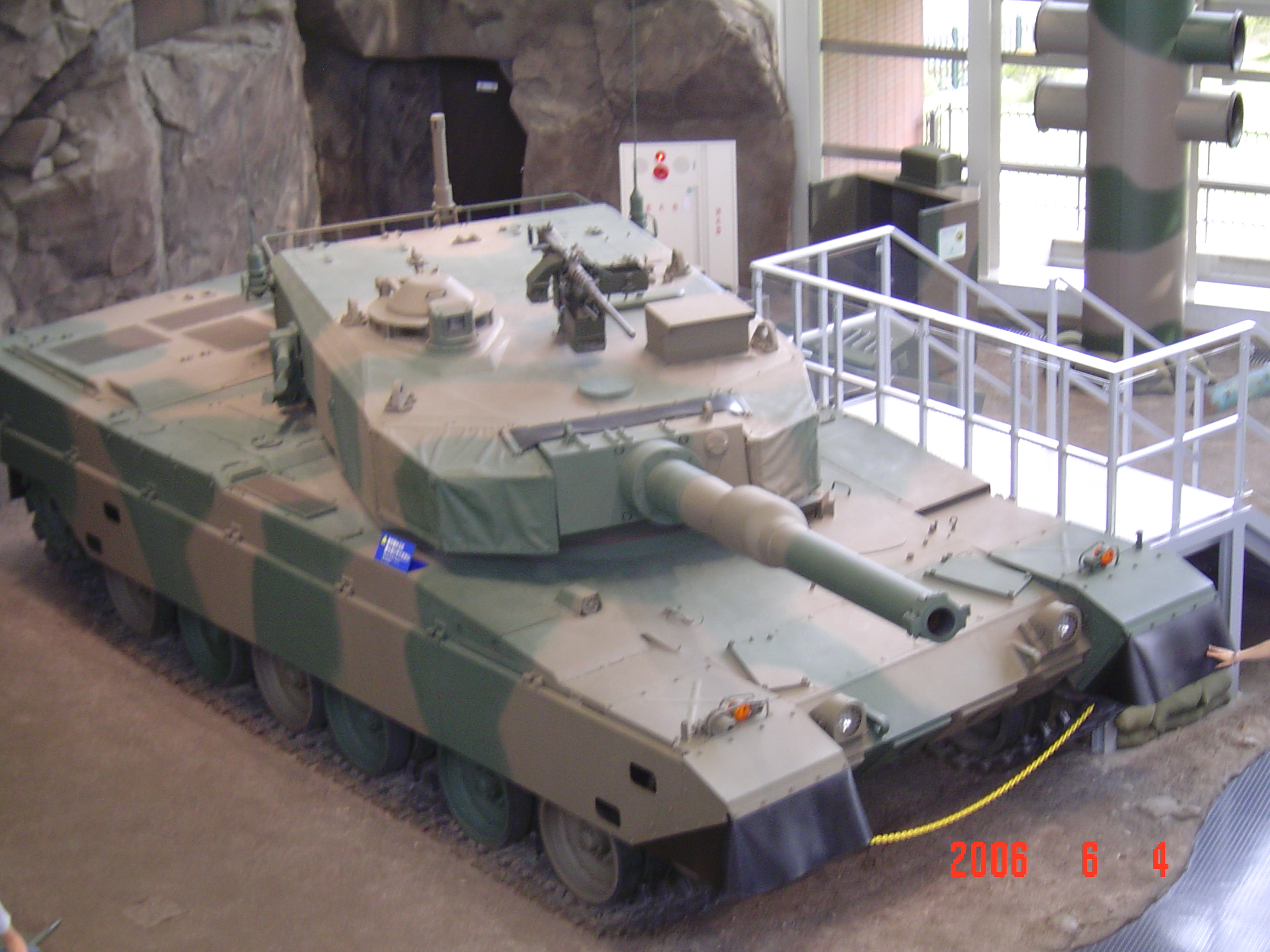 MBT type 90 of JGSDF at JGSDF PI center. ja:90式戦車 Typ 90 (Japan) Type 90 Mitsubishi Type 90 Type 90 Mitsubishi Tip 90